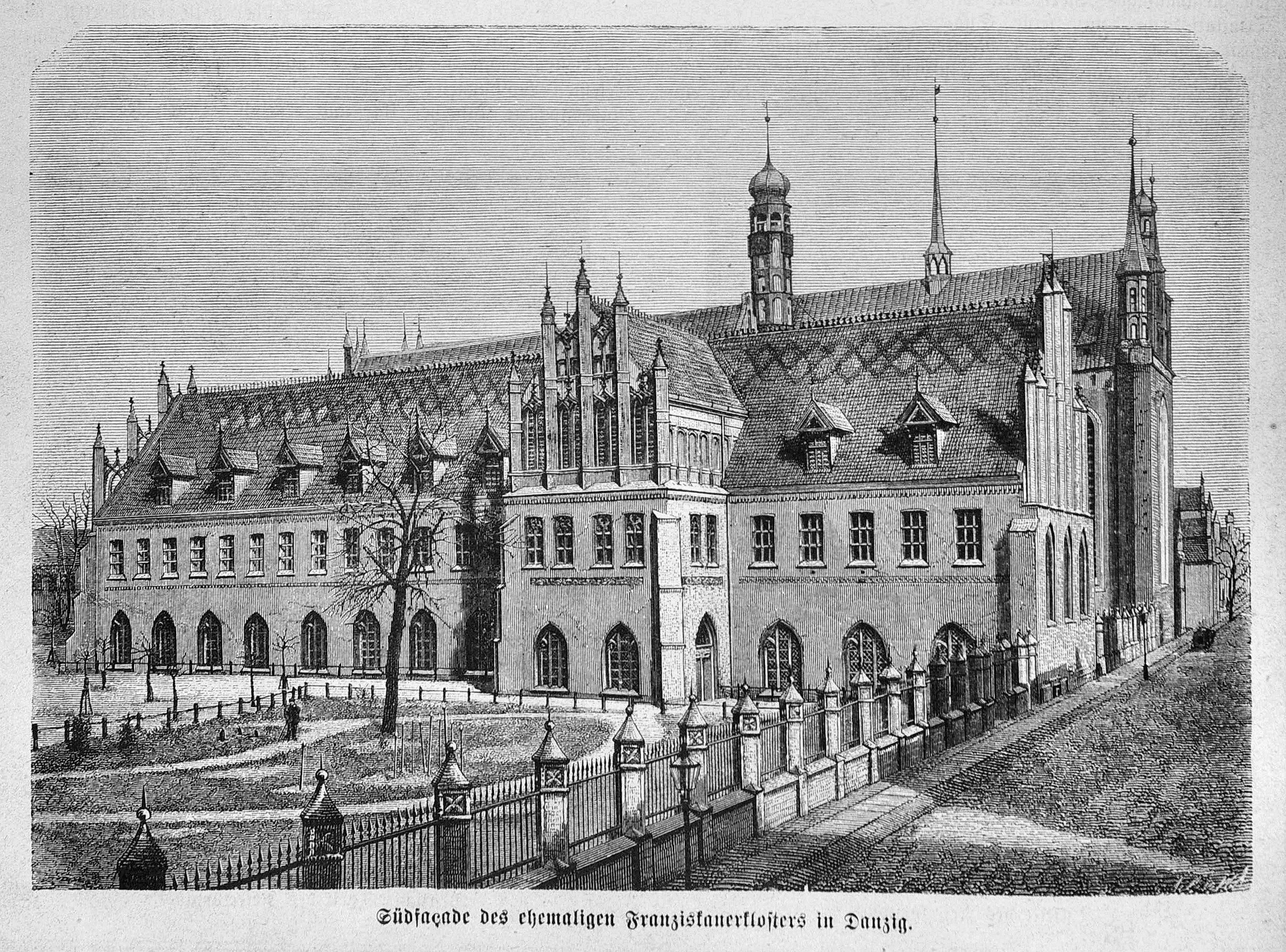 caption: "Südfacade des ehemaligen Franziskanerklosters in Danzig."